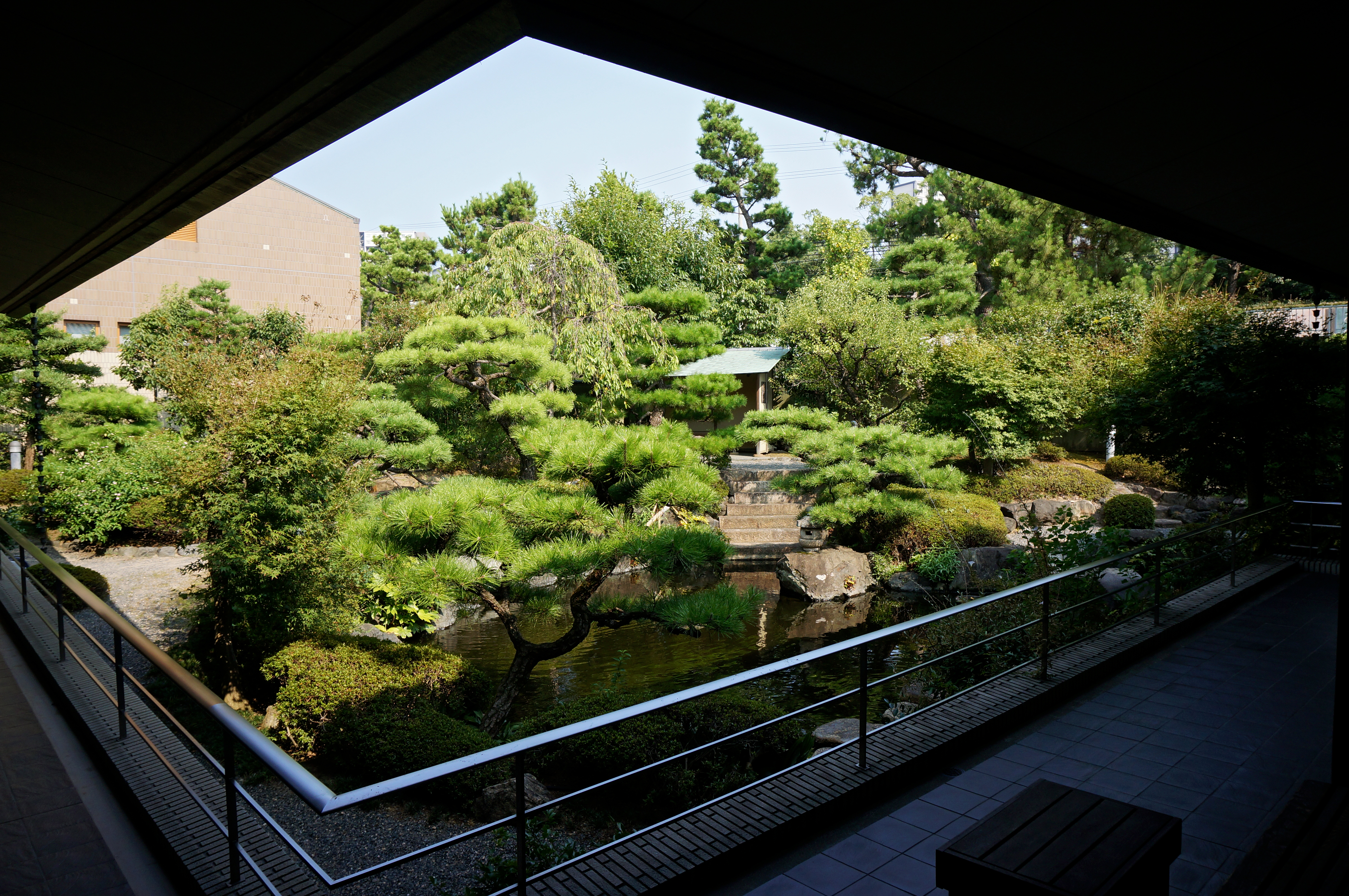 Tanizaki Junichiro Memorial Museum of Literature, Ashiya in Ashiya, Hyogo prefecture, Japan.